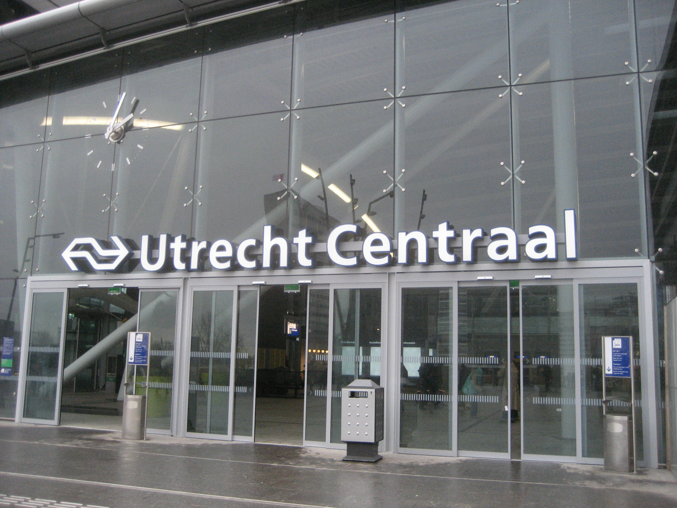 Entrance ("Jaarbeurszijde") Utrecht Central Railway Station (the Netherlands)